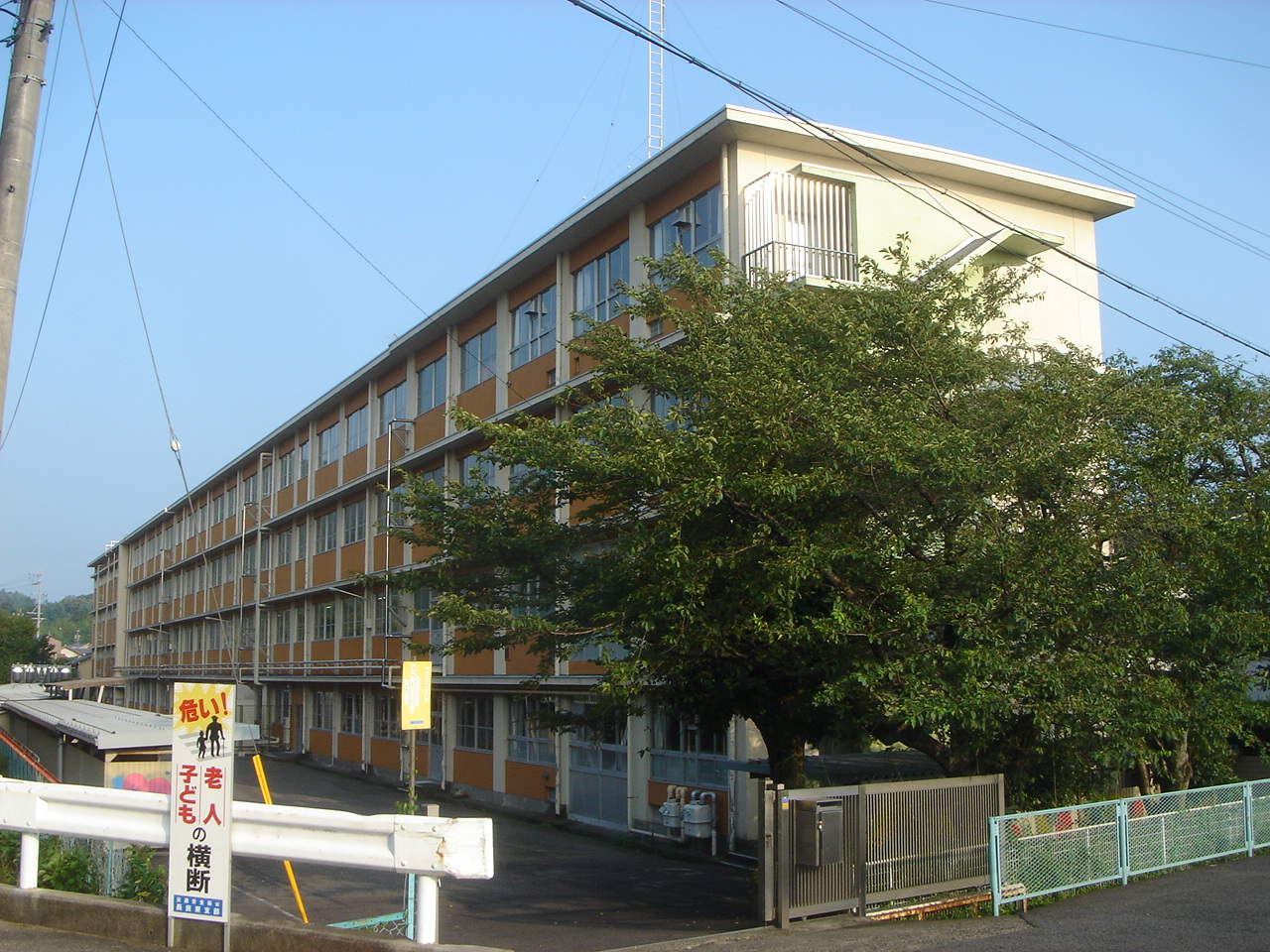 Gifu Prefectural Gizan High school（岐阜県立岐山高等学校）,Gifu,Gifu,Japan(岐阜県岐阜市)で撮影